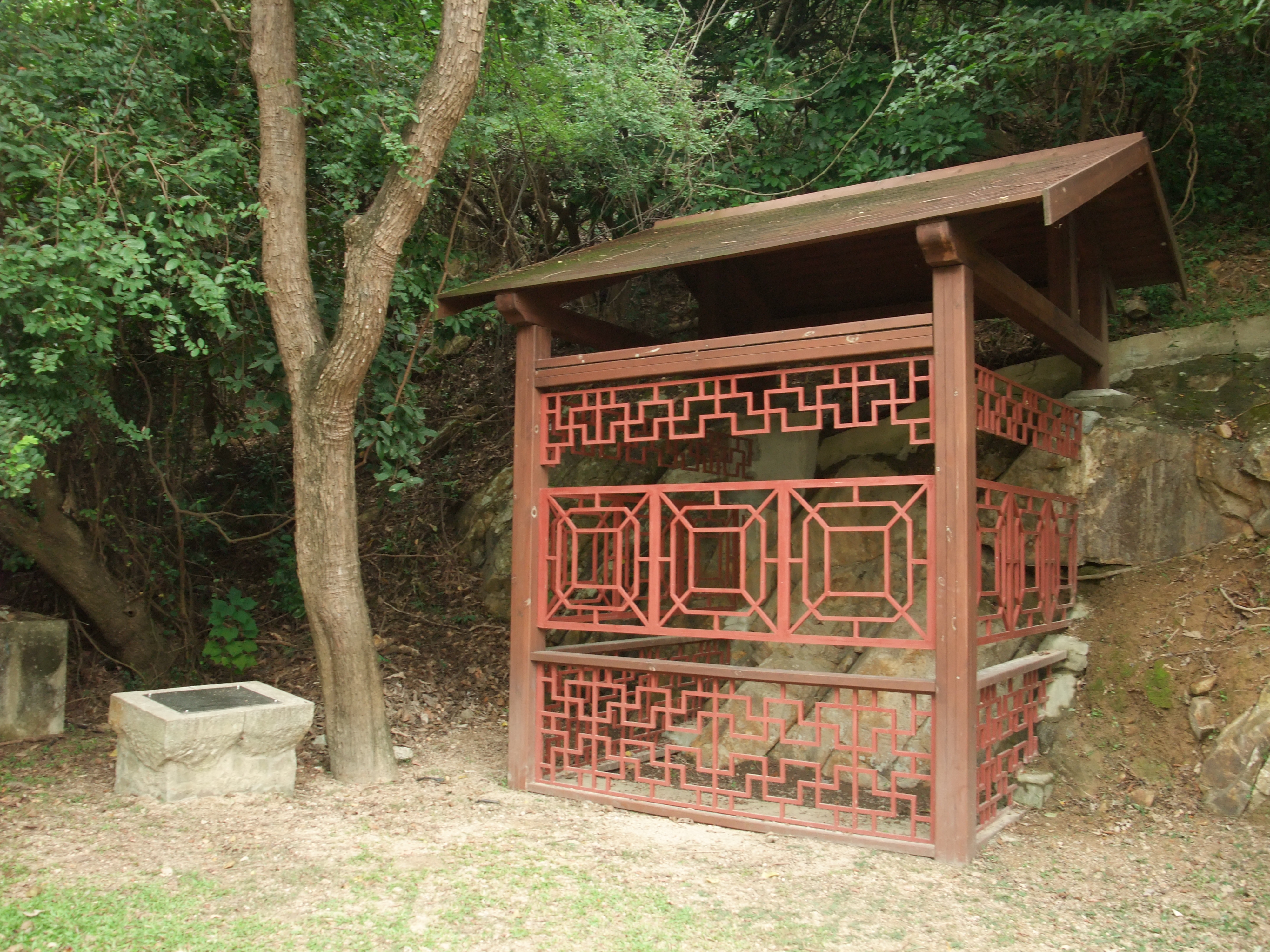 Photo of Shek Pik Rock Carving